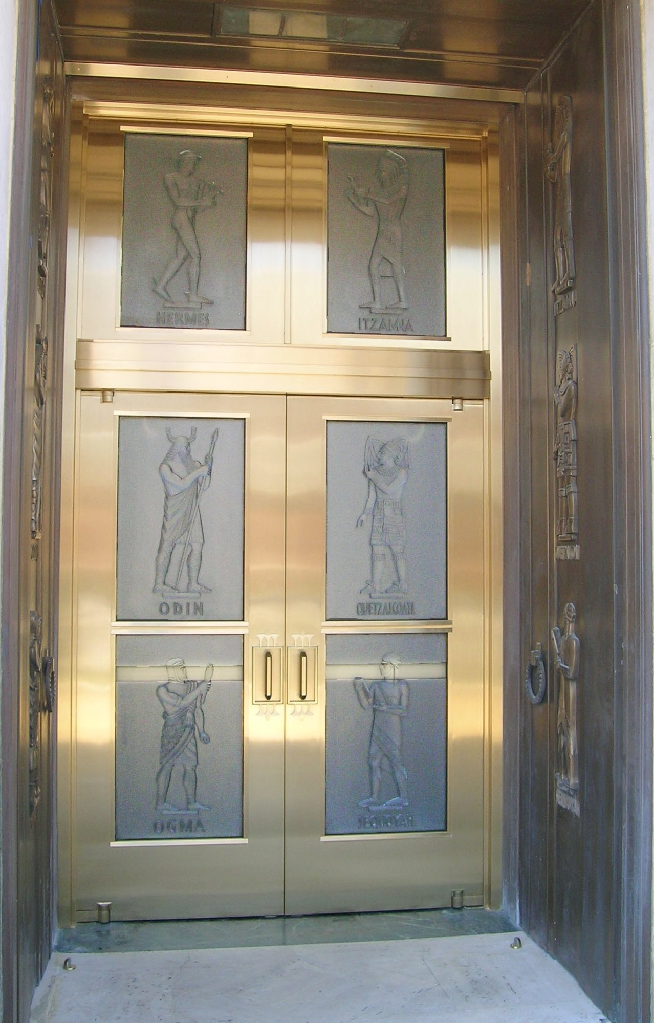 in 2013, the US Architect of the Capitol replaced the original, historic bronze doors of the Library of Congress John Adams Building to be code compliant. The new doors incorporate cast glass panels mounted within a bronze framework that reference the artistic heritage of the original doors by recreating the original, historic bronze reliefs in kiln-cast glass. The kiln-formed sculptural glass was made from molds taken off the original door sculptures. The original bronze doors will be retained in their present hold-open position, recessed into architectural niches. The sculpted bronze doors located on the east and west sides of the Adams building feature high-relief sculptures by American artist, Lee Lawrie, designed to commemorate the history of the written word, depicting gods of writing as well as real-life Native American Sequoyah. The glass artwork was made by the Washington Glass Studio and Fireart Glass.